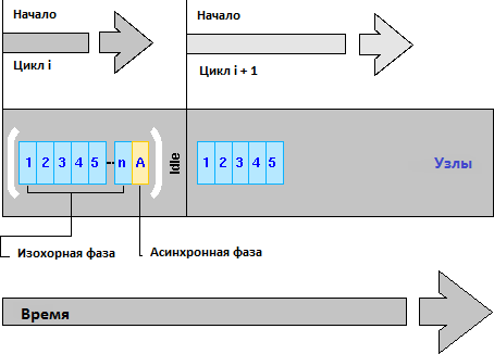 Cycle